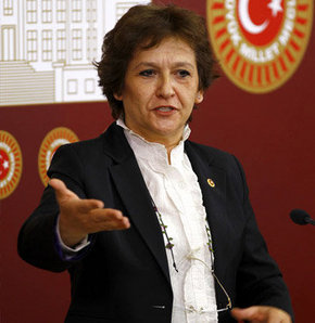 Prof. Dr. Birgül Ayman Güler